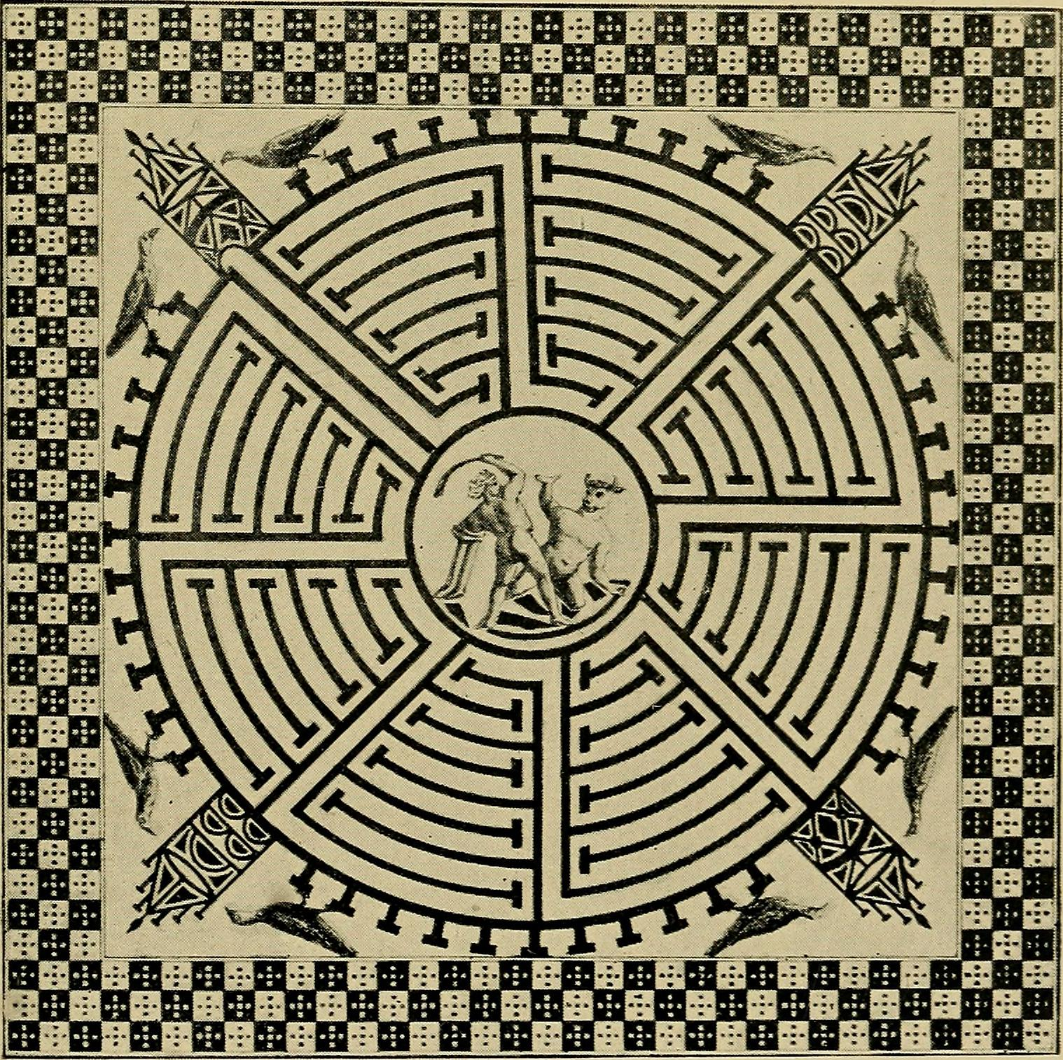 Title: Mazes and labyrinths; a general account of their history and developments Year: 1922 (1920s) Authors: Matthews, William Henry, 1882- Subjects: Labyrinths Publisher: London, New York, etc. Longmans, Green Text Appearing Before Image: Fig. 34. Mosaic at Caerleon, Mon. (O Morgan, in Proc. Mon.and Caerleon Ant. Assn, 1866) Text Appearing After Image: Fig. 36. Mosaic at Cormerod, Switzerland.(Mitt. Ant. Ges. Zurich, XVI.) mentioned above, the central space being occupied bythe Minotaur^ who is shown in an attitude of defeat.